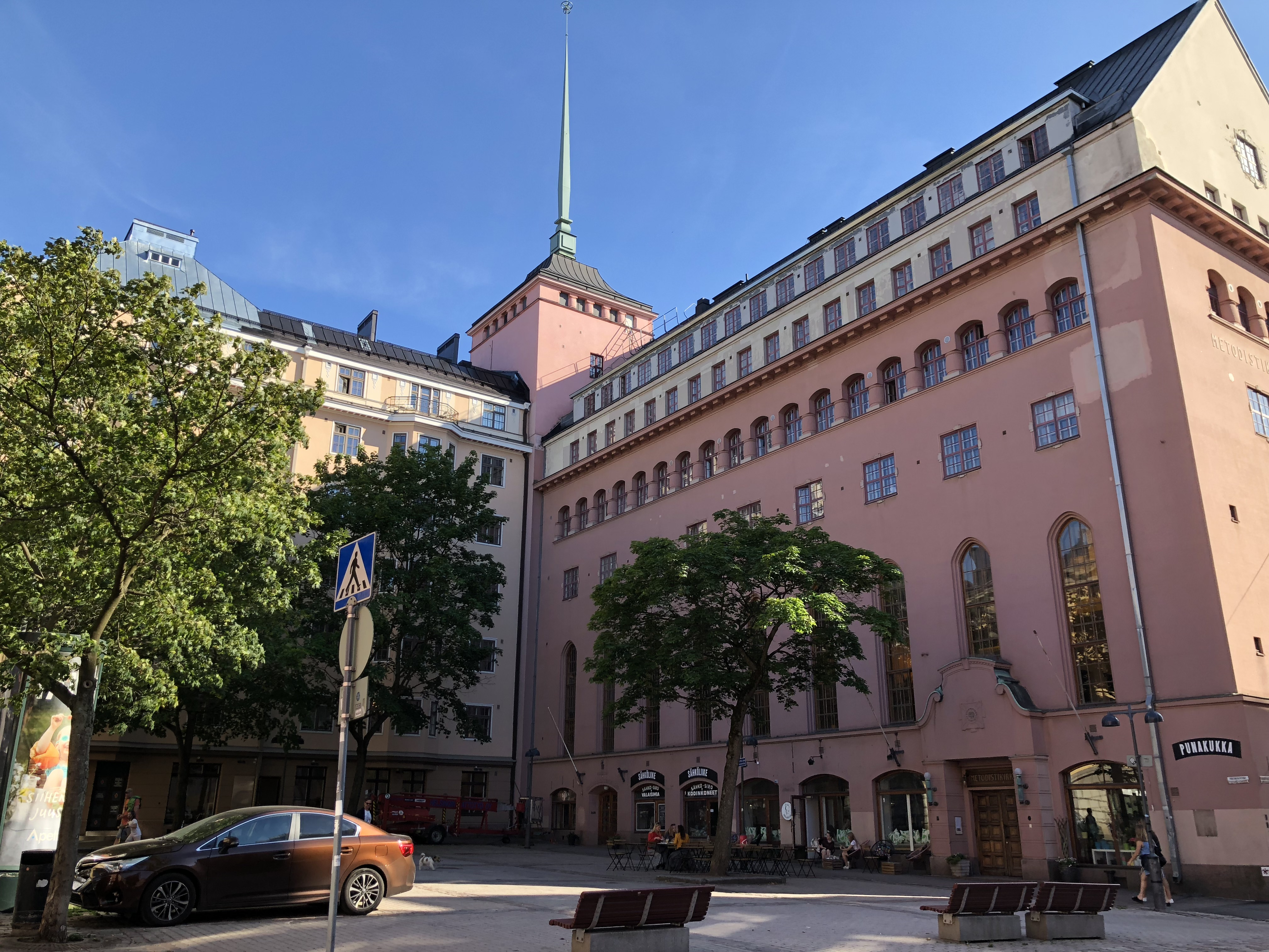 Fredikintori filmed in summer 2018